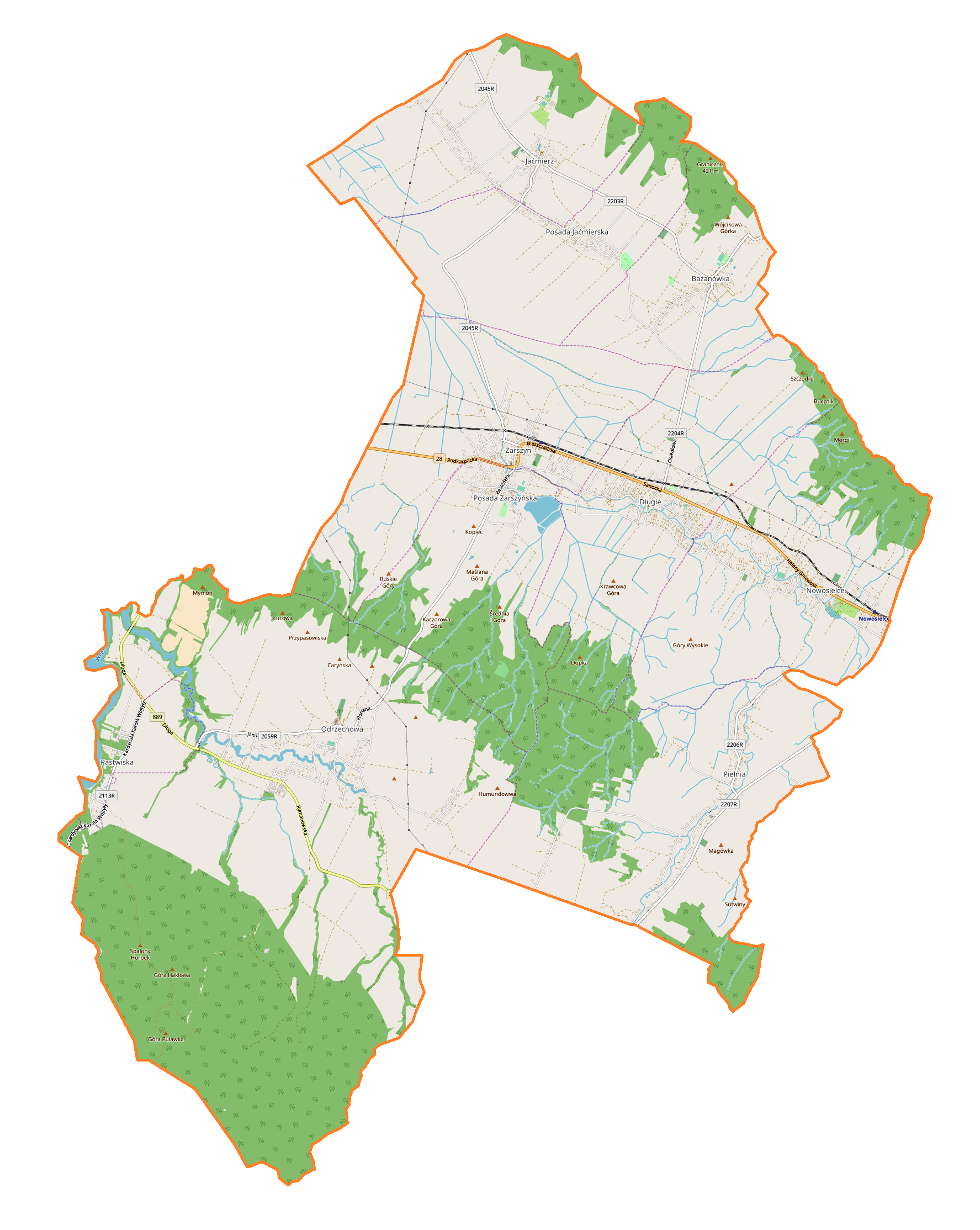 Location map